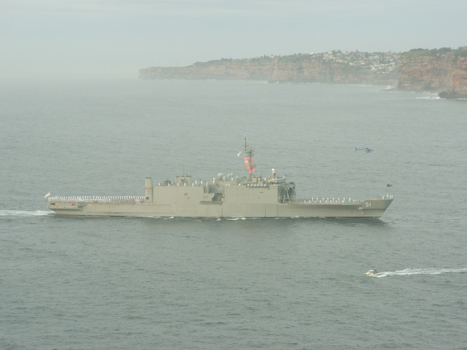 The Kanimbla class Landing Platform Amphibious HMAS Kanimbla entering Sydney Harbour as part of a ceremonial fleet entry. Taken from North Head.